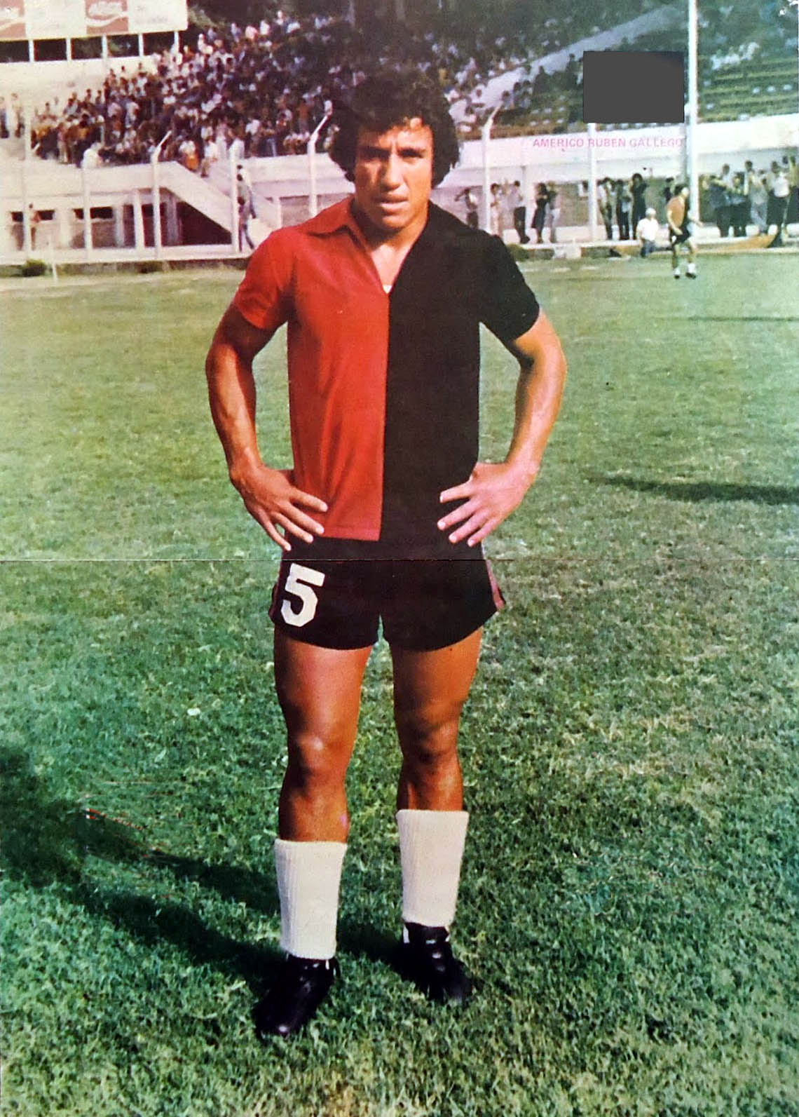 Américo Gallego while playing for Newell's OB.